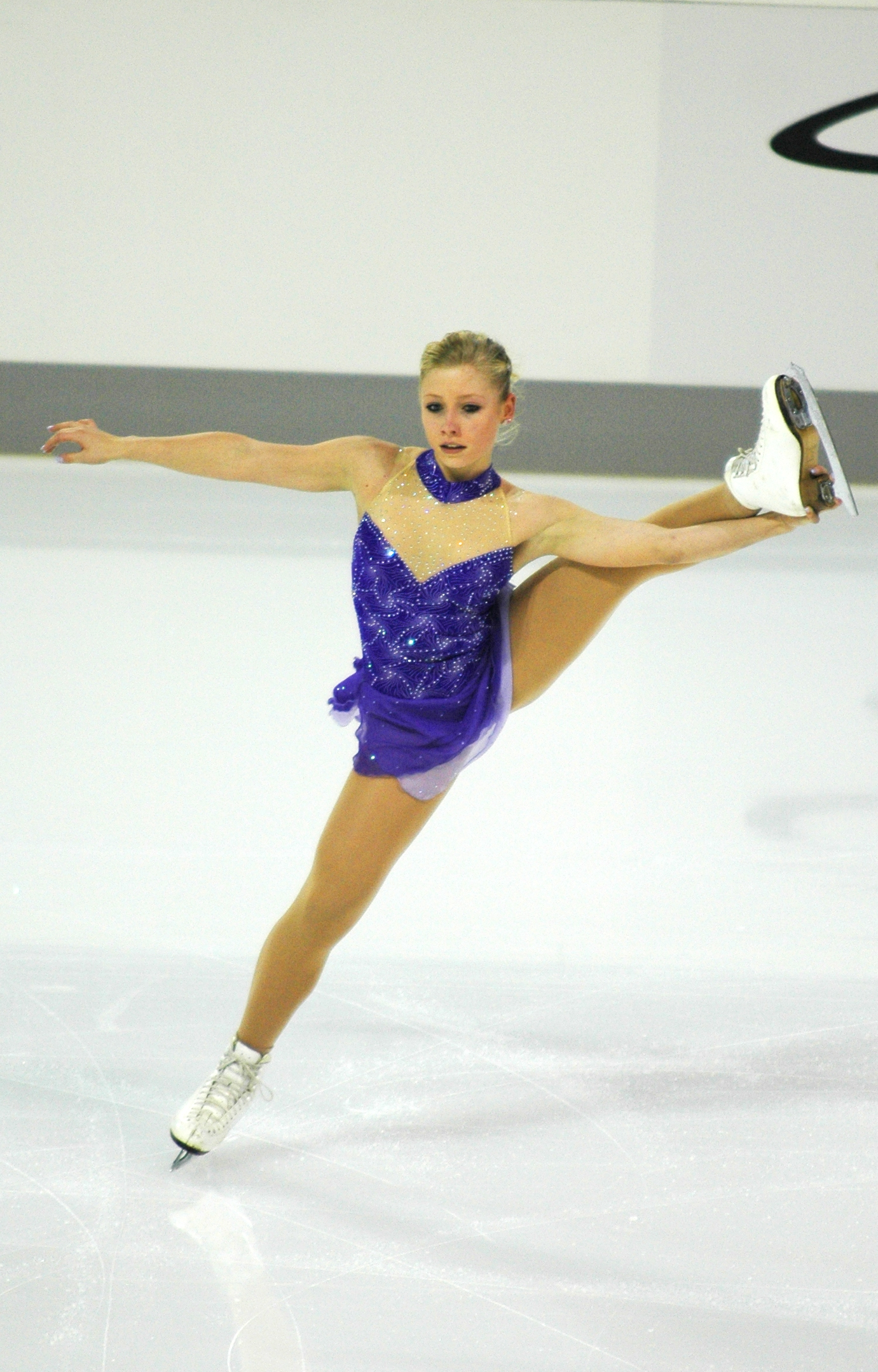 Julia Pfrengle during her short program at the German Championships in Mannheim 2010.